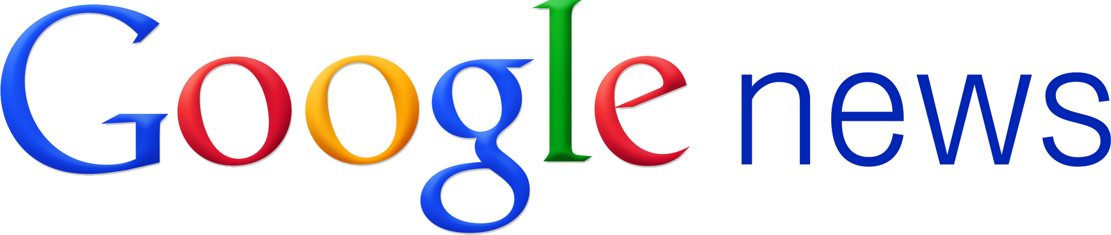 Google News logo.